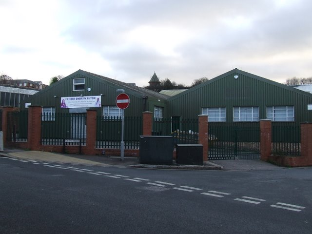 Christ Embassy Luton Churches in Luton come in a wide variety of shapes and sizes. This one is at the corner of High Town Road and Oxen Road.